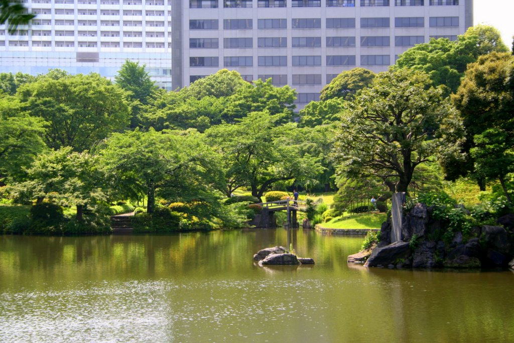 Garden in Tokyo. Picture taken on June 7, 2006